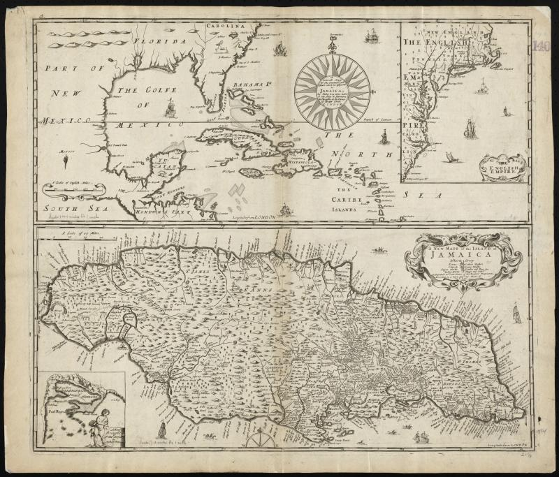 Zoom into this map at . Author: Lea, Philip Publisher: Lea, Philip Date: 1688 Location: Jamaica, West Indies Dimensions: on sheet 52 x 61 cm. Scale: Scales differ Call Number: G1015 .C651 1630